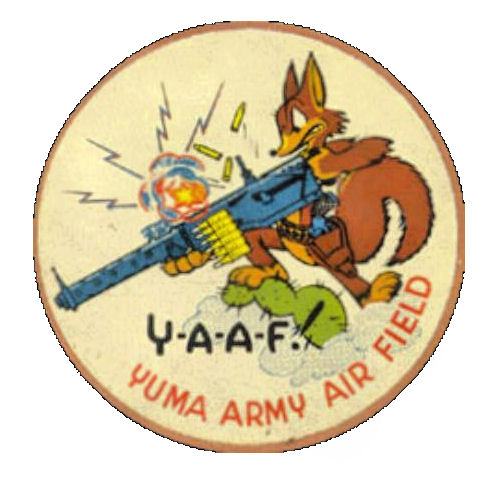 Patch from the Flexible Gunnery School, from Yuma Army Air Base, 1944